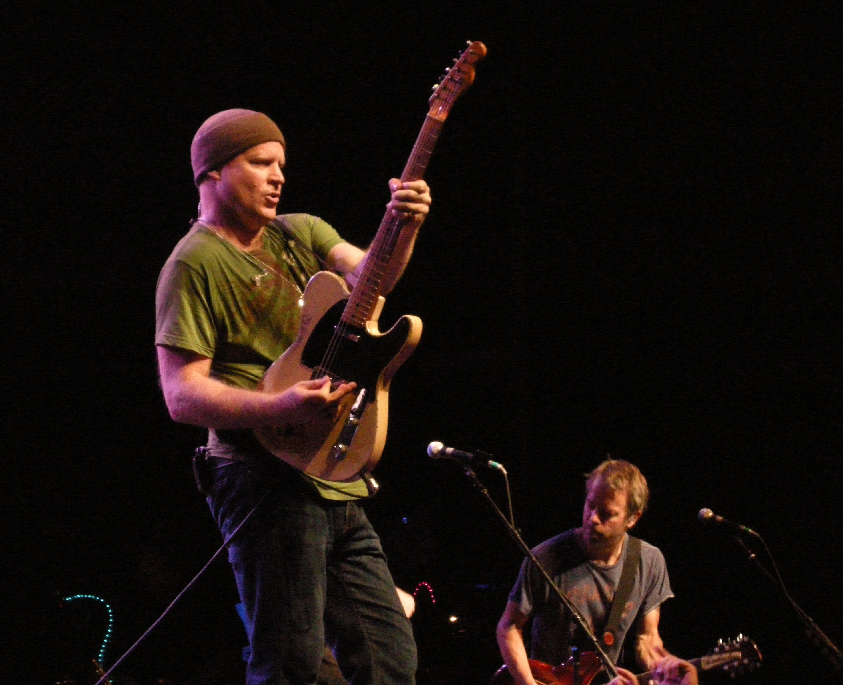 Dan Vickrey of the group, Counting Crows